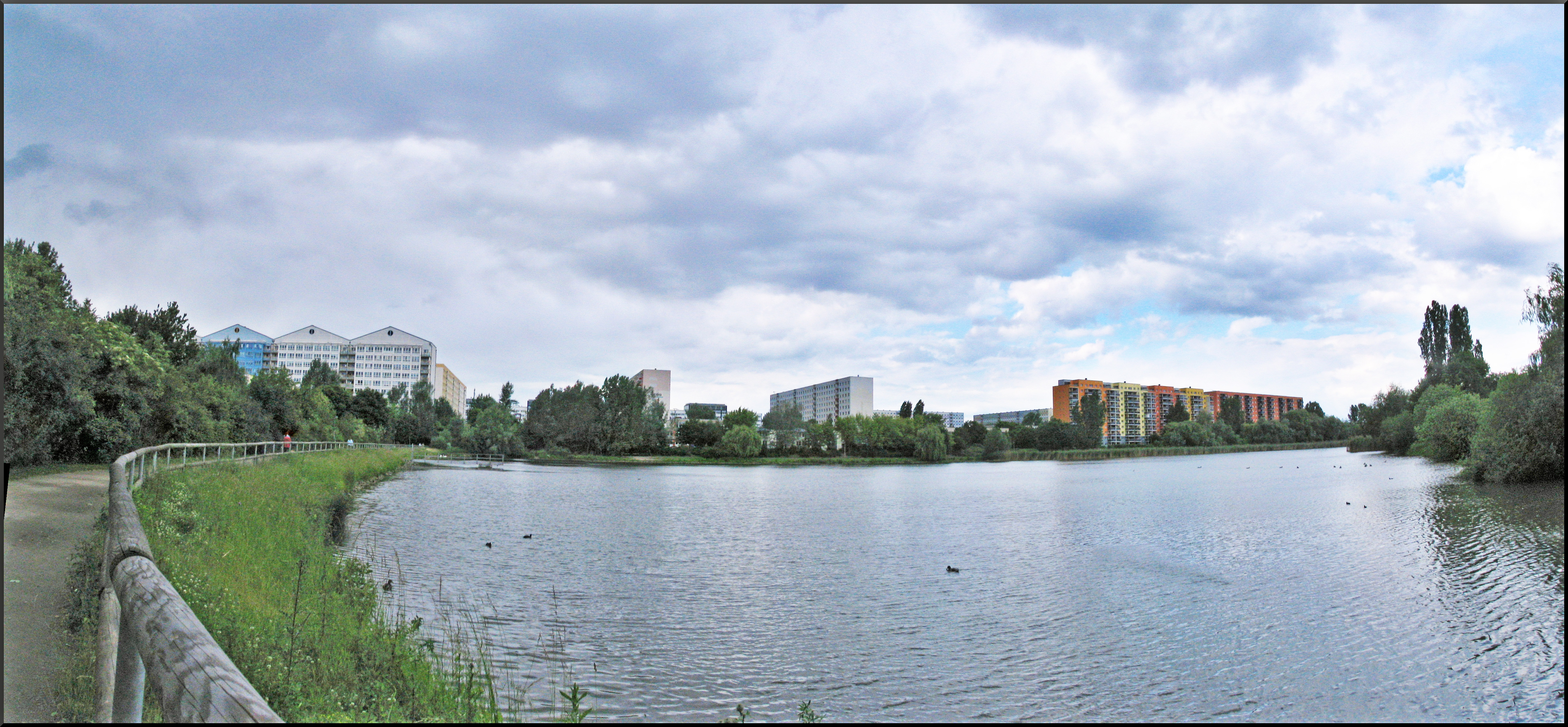 Panorama shoot of Lößnig (seen from the lake "Silber")